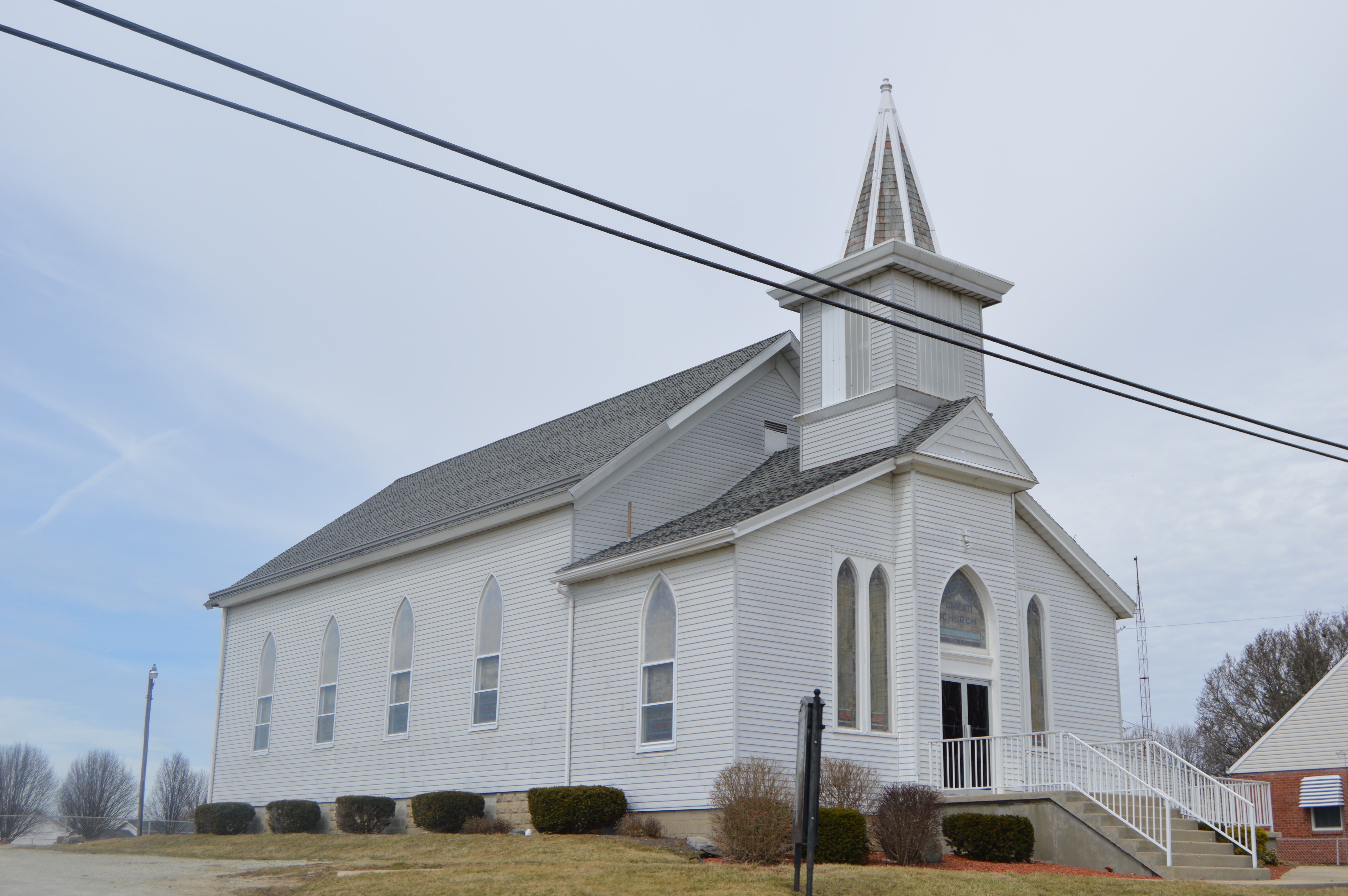 Front and southern side of the Everton Community Church, located at 5671 State Road 1 at Everton in Jackson Township, Fayette County, Indiana, United States.